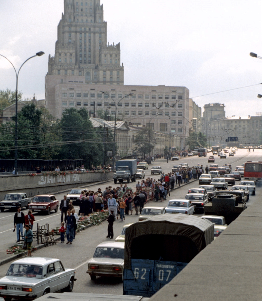 Место гибели 3 жертв противостояния ГКЧП. Сразу после августовского путча.